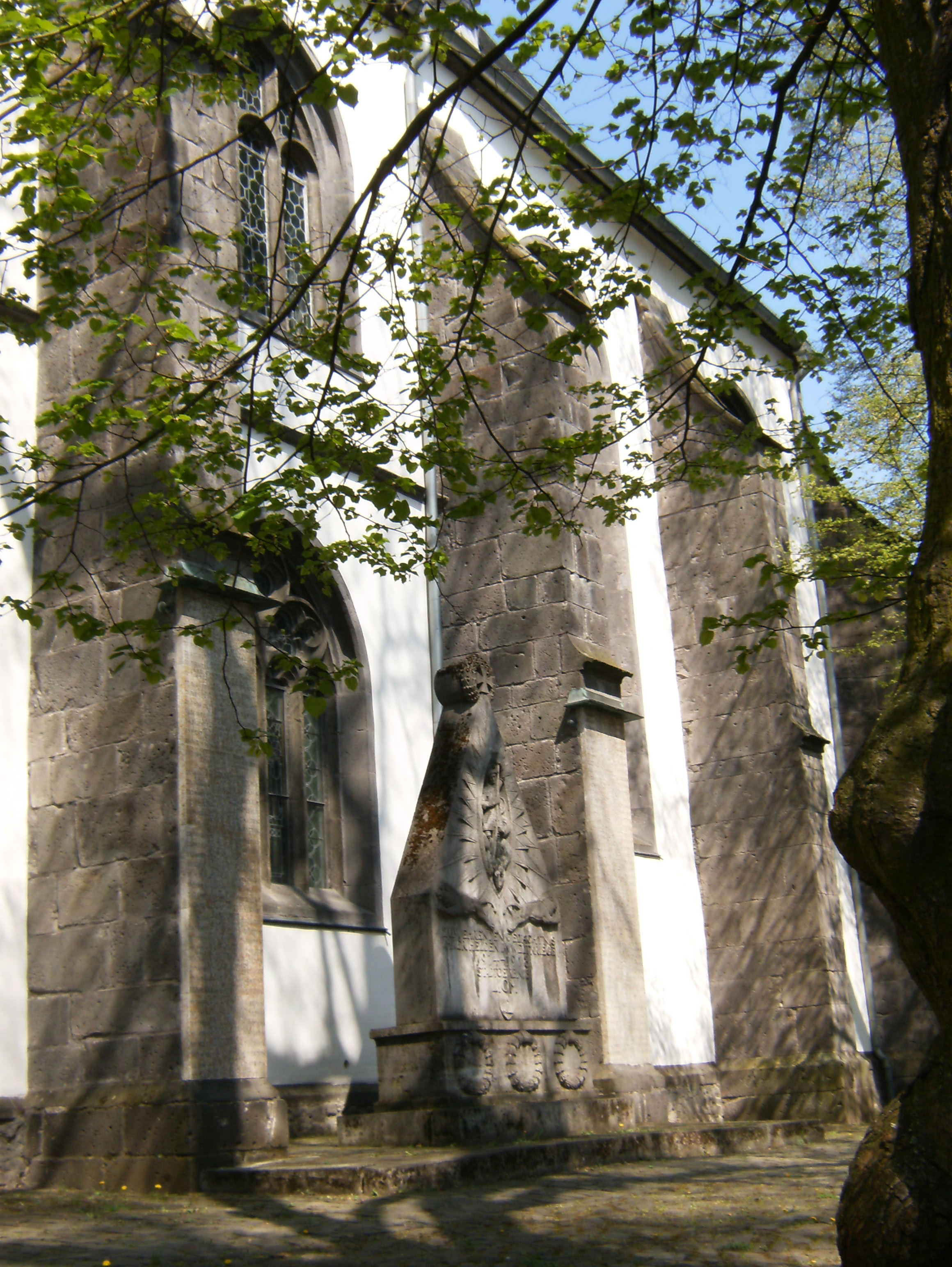 Lich (Hessen), the gothic Marienstiftskirche.